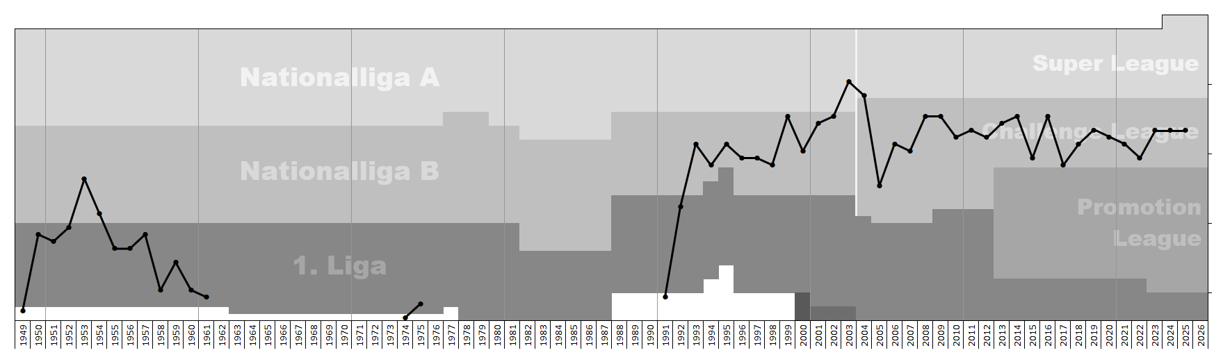 Chart of end-season table positions for FC Wil in the Swiss football league system. Data source: RSSSF